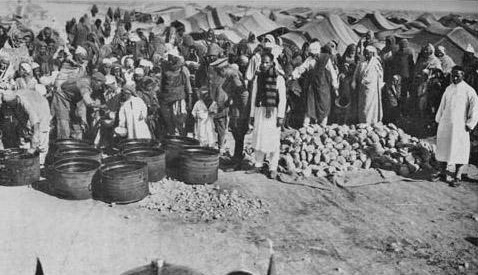 Distribution of soup at Al-Magroon concentration camp, which had circa 13.050 Libyan prisoners by 1931. compare Enzo Santarelli, et al: Omar al-Mukhtar: The Italian Reconquest of Libya. Darf 1986, p. 100.